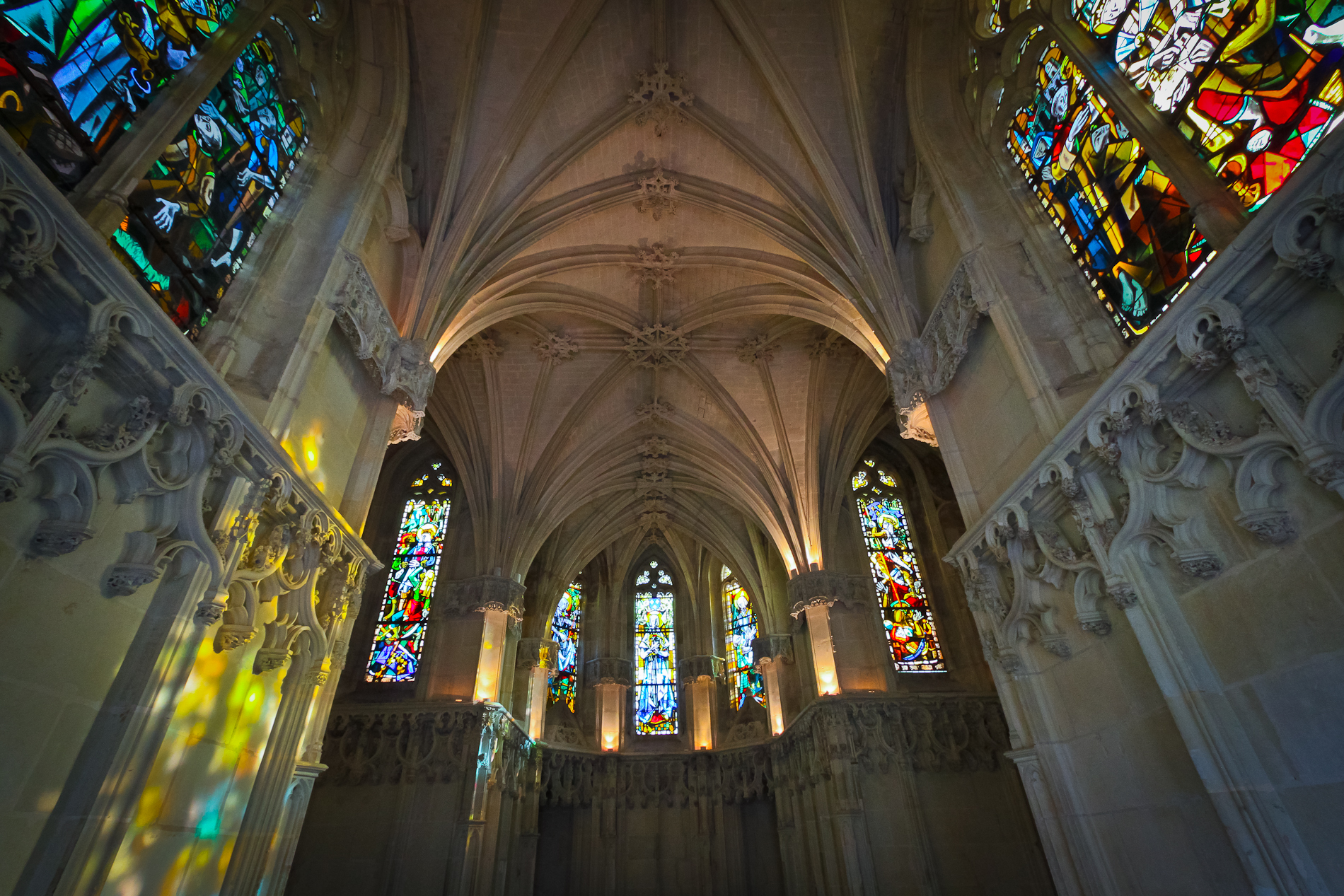 Interior of the Chapel of Saint Hubert in the Château d'Amboise (Castle of Amboise) in Amboise, Indre-et-Loire, France. The stained glass is by Max Ingrand.